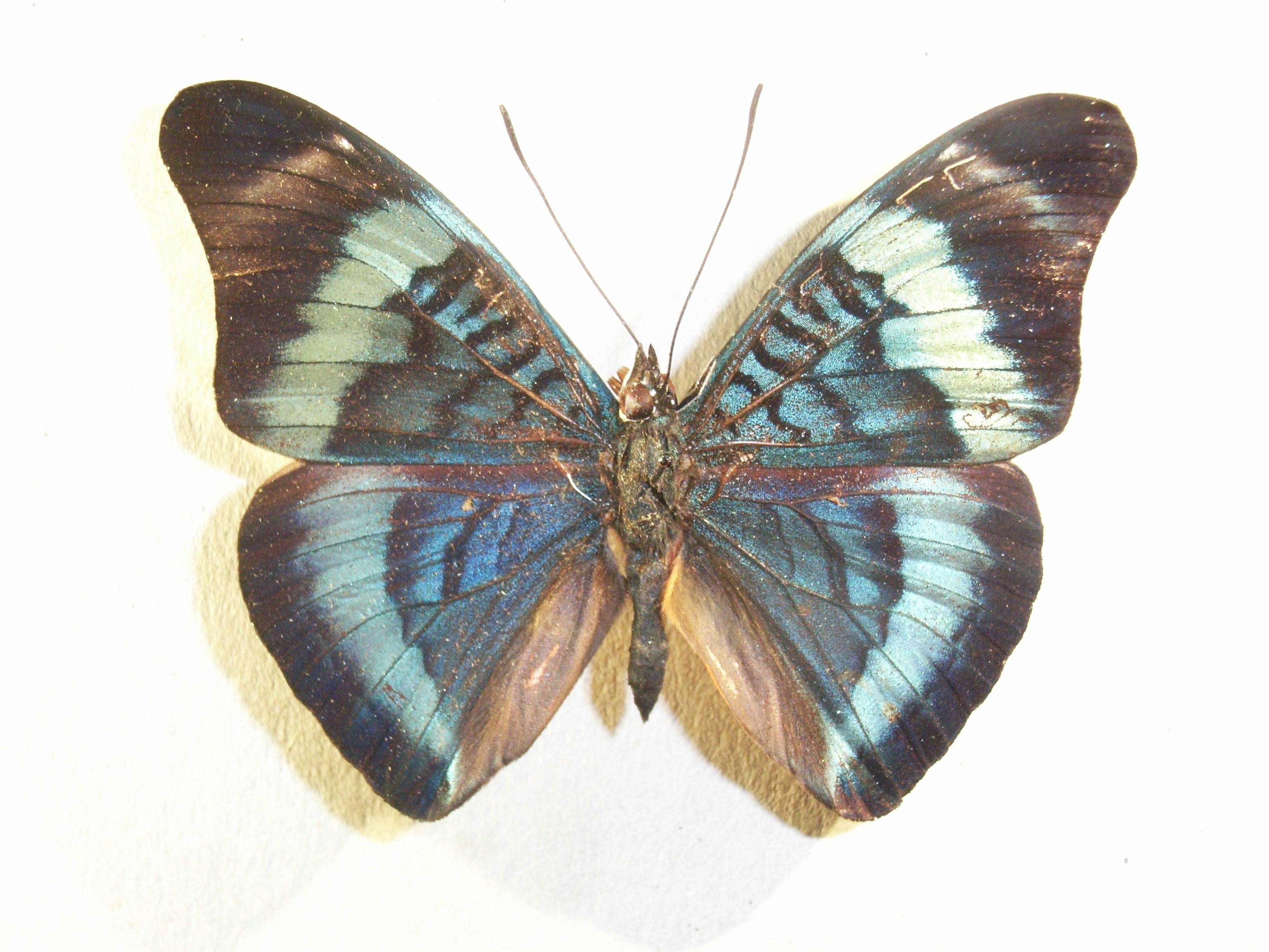 Panacea procilla:Biblidinae:Nymphalidae